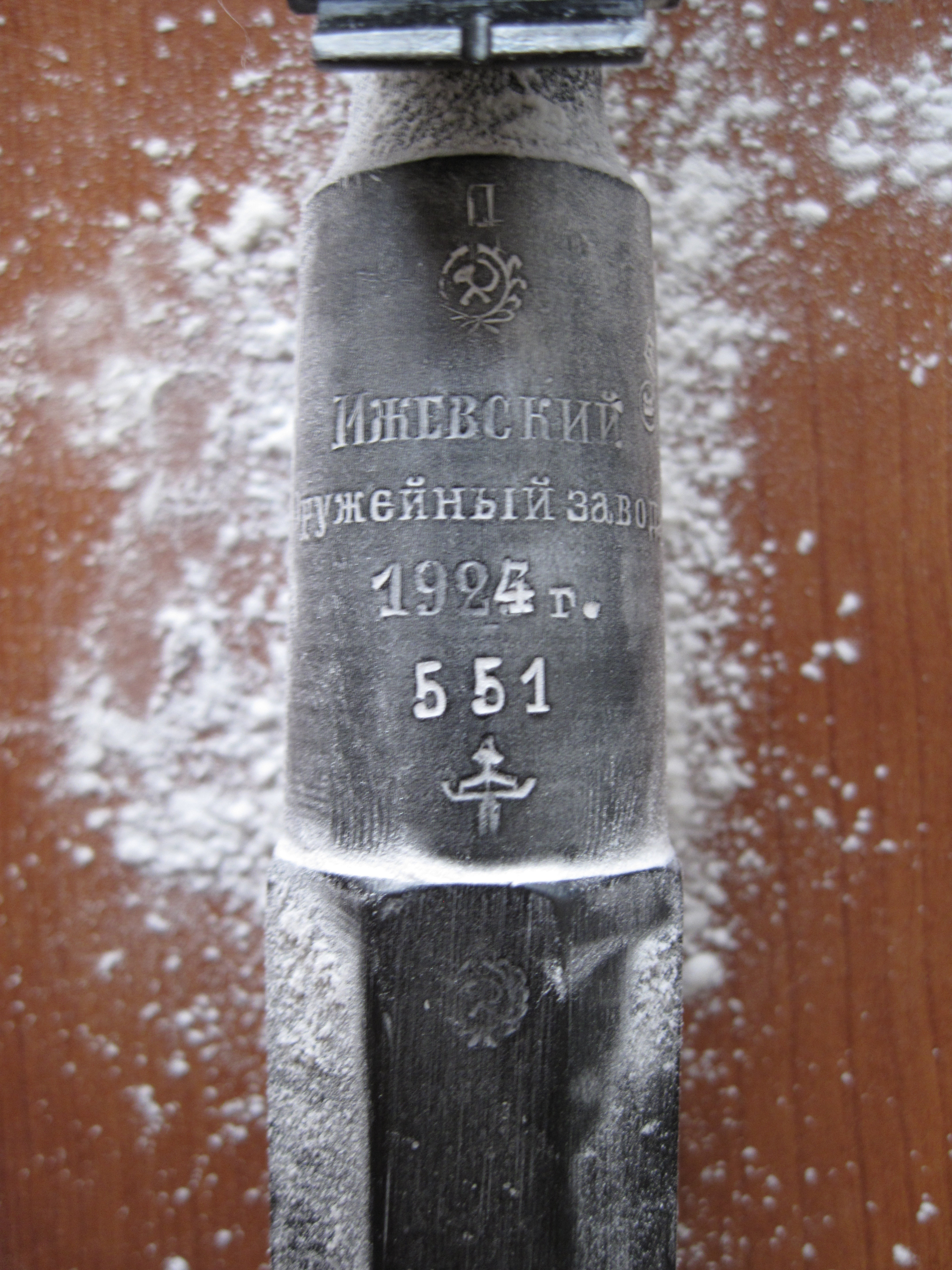 Mosin-Nagant-1891/30_on_Cossack_hex